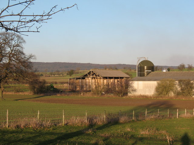 Farm buildings at Angram Hall Barns and silo at a farm near Husthwaite.